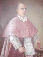 Bishop Braulio Orue Vivanco, Bisbop of Pinar del Rio